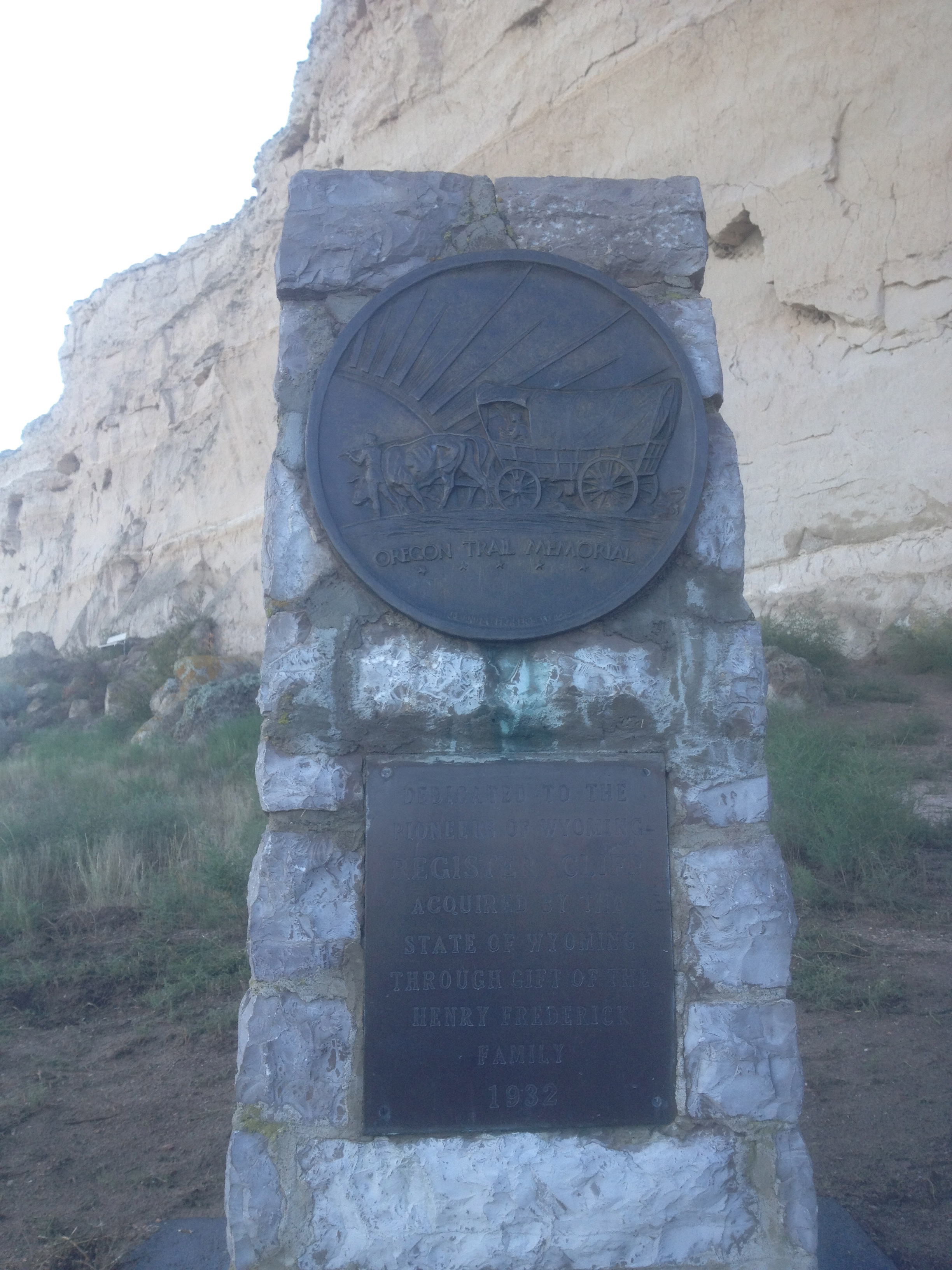 Oregon Trail memorial near Register Cliff, Wyoming (south of the town of Guernsey)